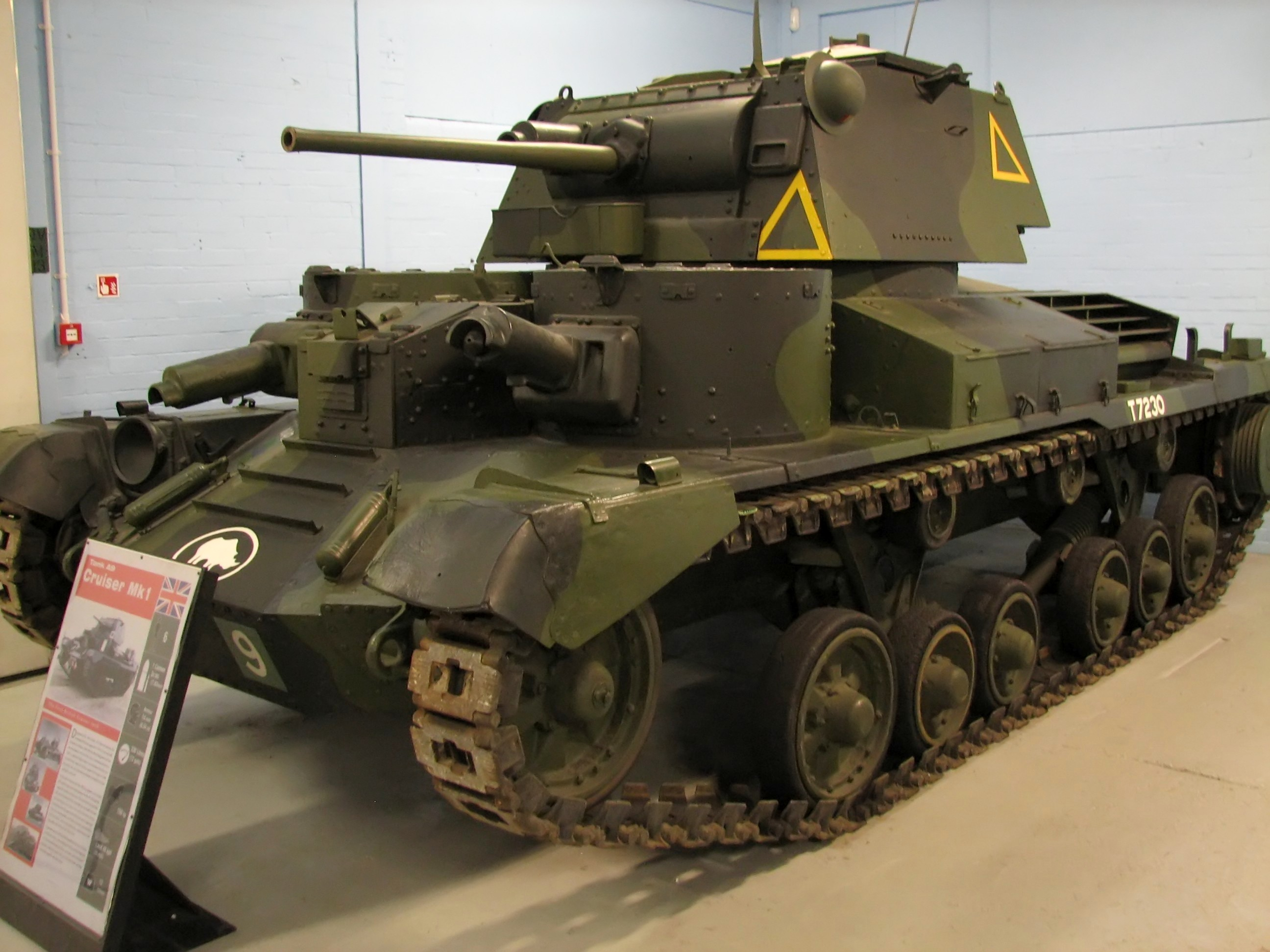 Cruiser Tank Mk 1 A9 at the Bovington Tank Museum